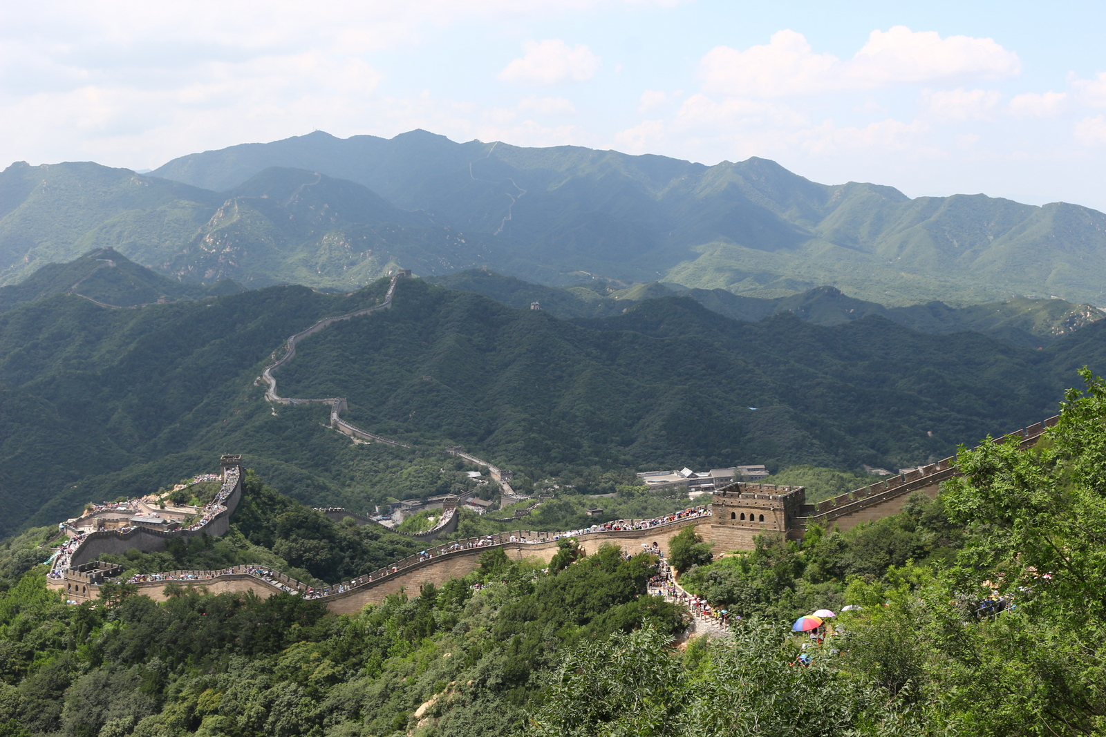 Great Wall of China in tourist season